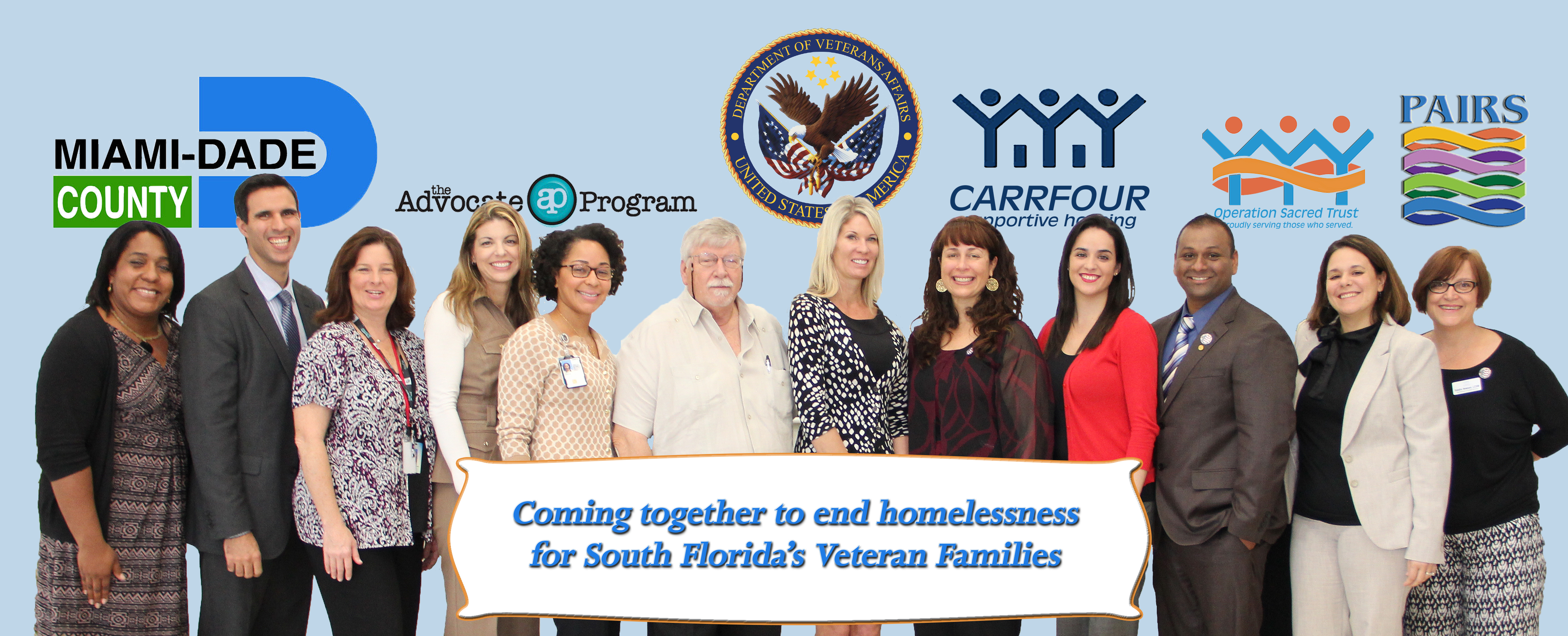 Leadership of the Miami-Dade County Homeless Trust, the U.S. Department of Veterans Affairs, Miami VA Medical Center, Carrfour Supportive Housing, the Advocate Program, and PAIRS Foundation come together to memorialize collaborative agreement to end homelessness for Veterans in Miami-Dade County, Florida on Friday, December 5, 2014 at Dr. Barbara Carey Shuler Manor in Miami, FL.